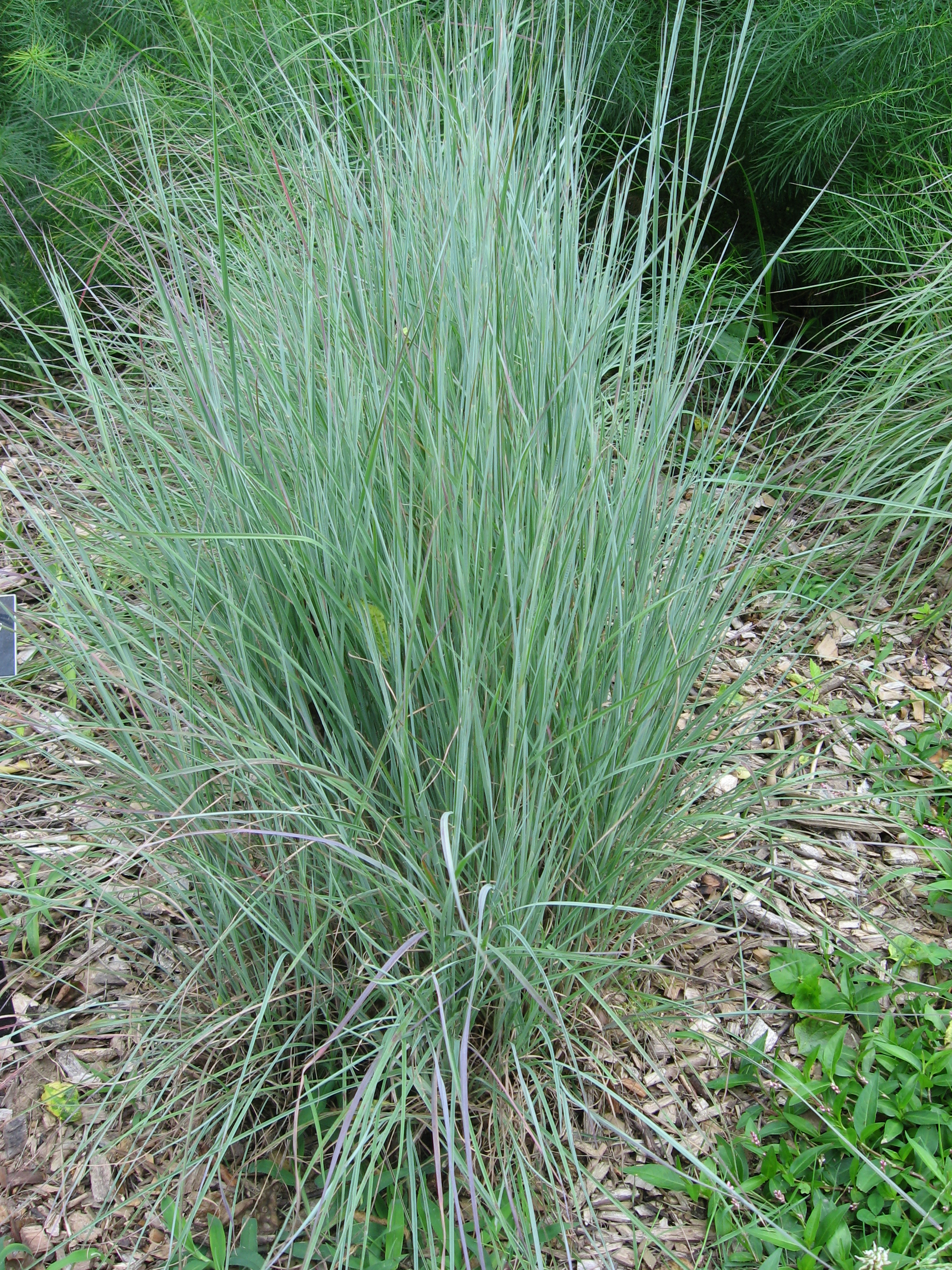 A picture of Schizachyrium scoparium.